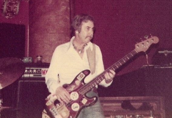 Max Bennett plays with L.A. Express at the Great American Music Hall in San Francisco, California.